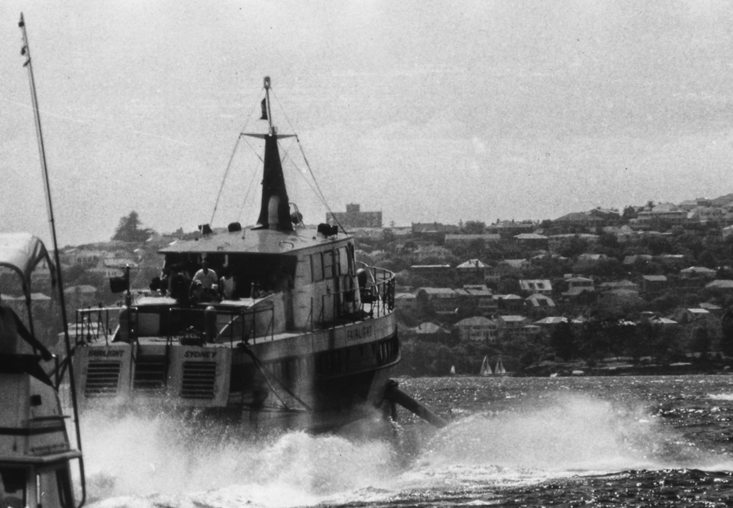 Fairlight at speed in eastern Sydney harbour. Picture probably before or during 1984 or 1985 Australia Day Ferry Boat Race.